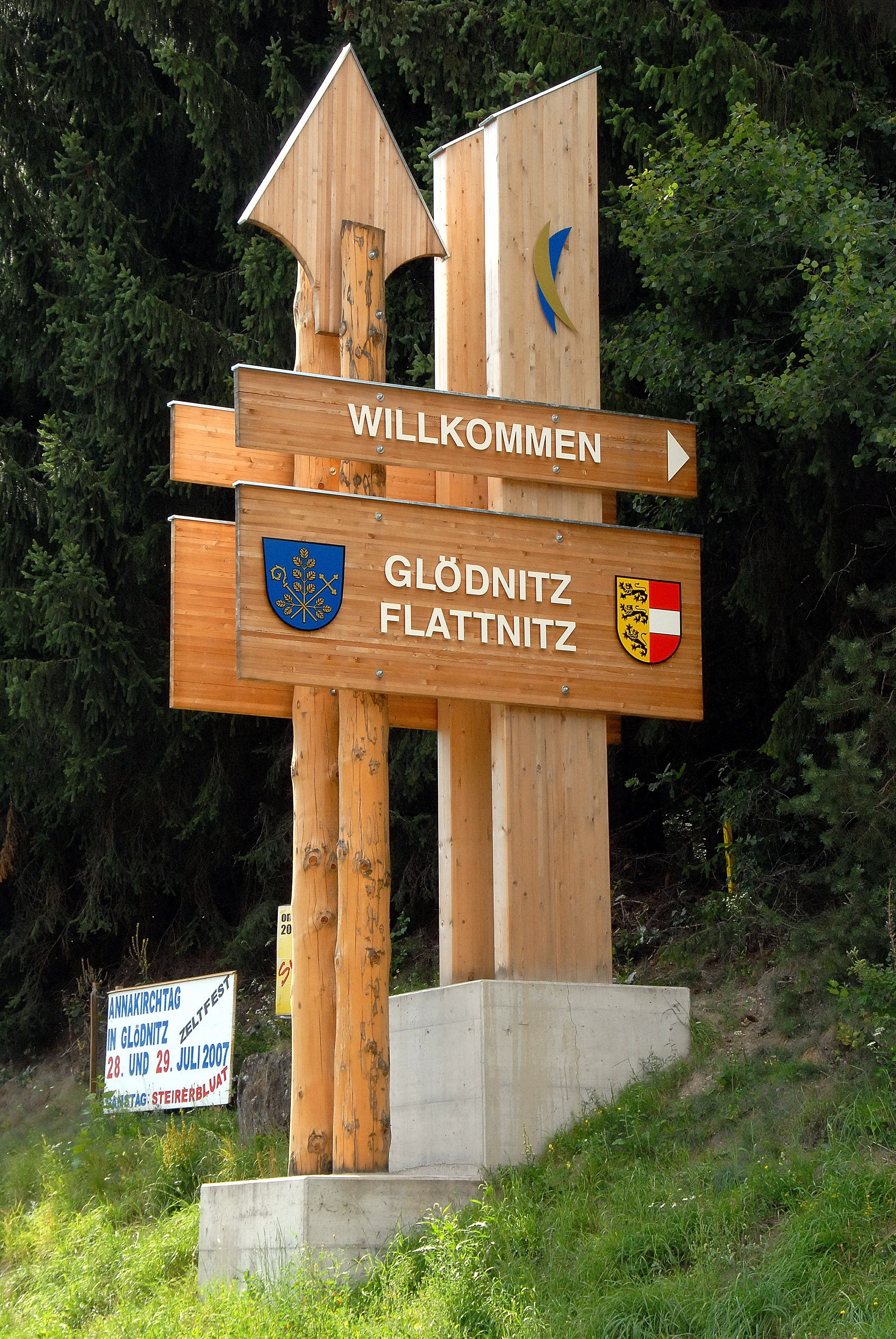 Wooden traffic guidance system in the Gurk valley, community Gloednitz, district Saint Veit on the Glan, Carinthia, Austria